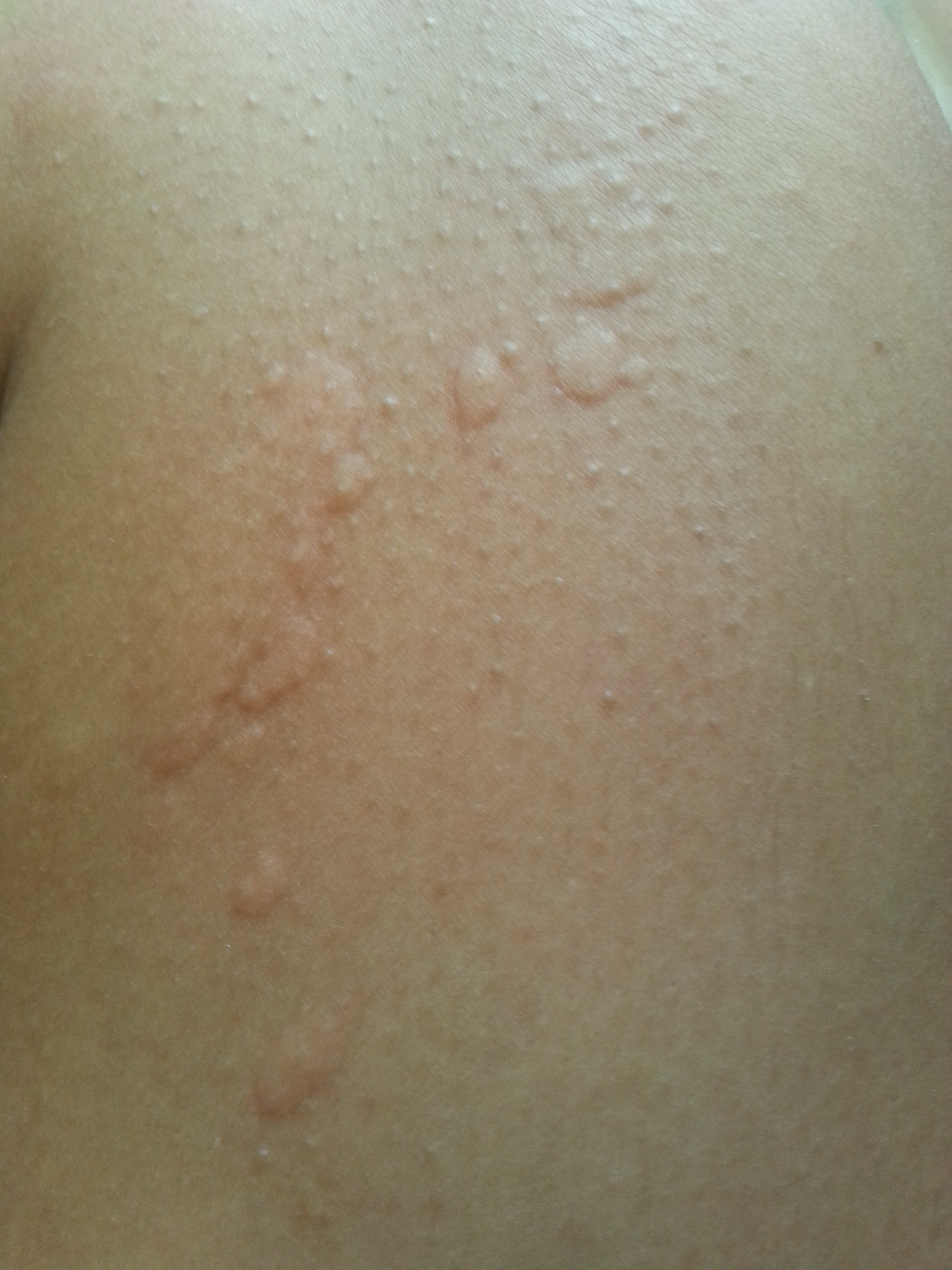 Hives and rash after subject's presentation to cold stimulus.